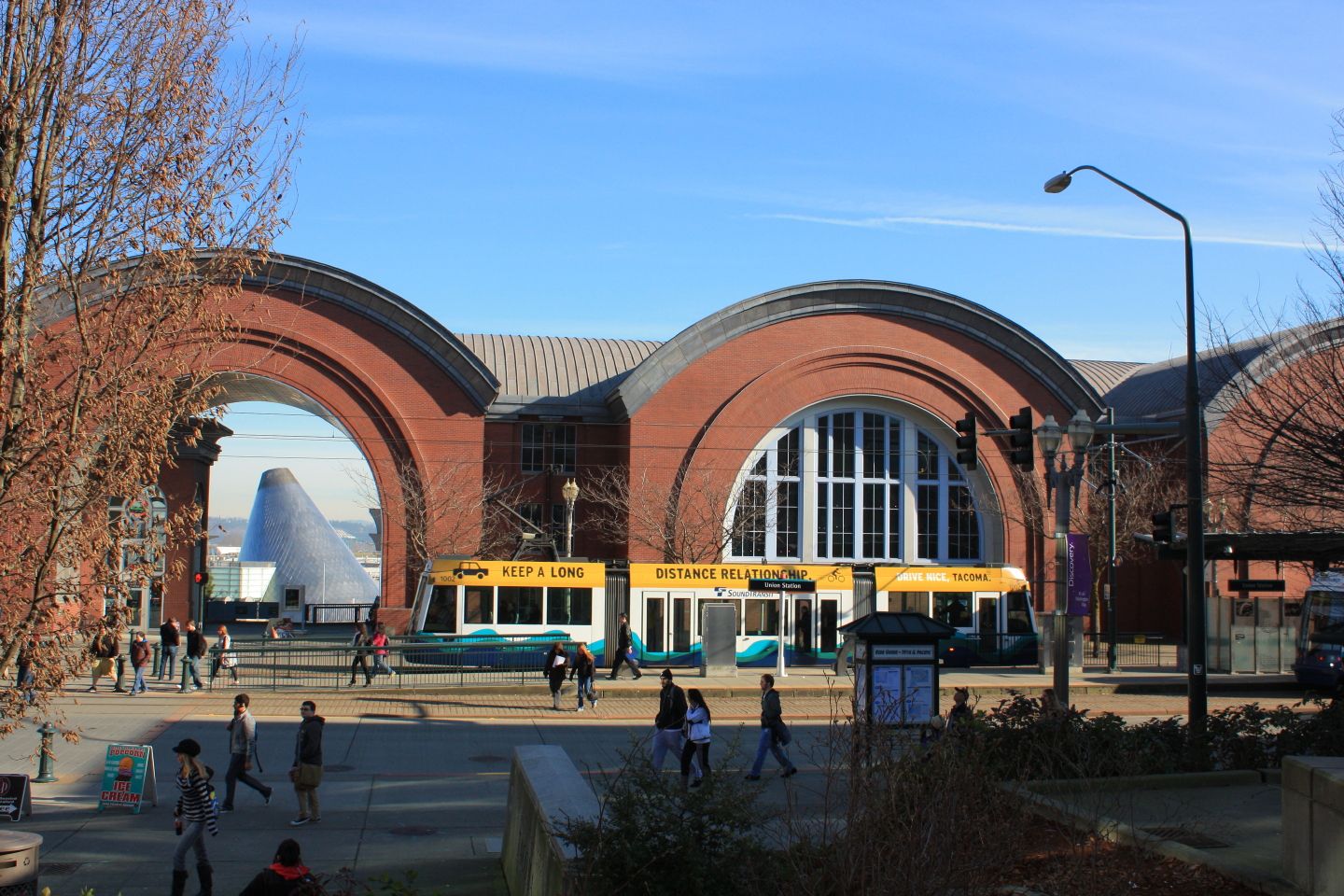 Tacoma Link car 1002 passes the Washington State History Museum northbound from the Union Station/S 19th Street stop on 2 February 2011. The Museum of Glass hotshop cone lays beyond the History Museum entrance arch.